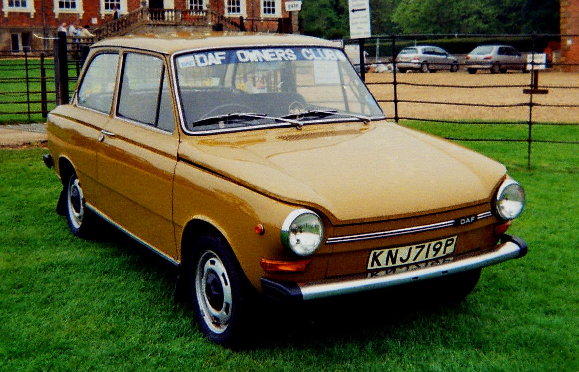 1975 DAF 44 (850CC) at Stanford Hall. Photo by Asterion